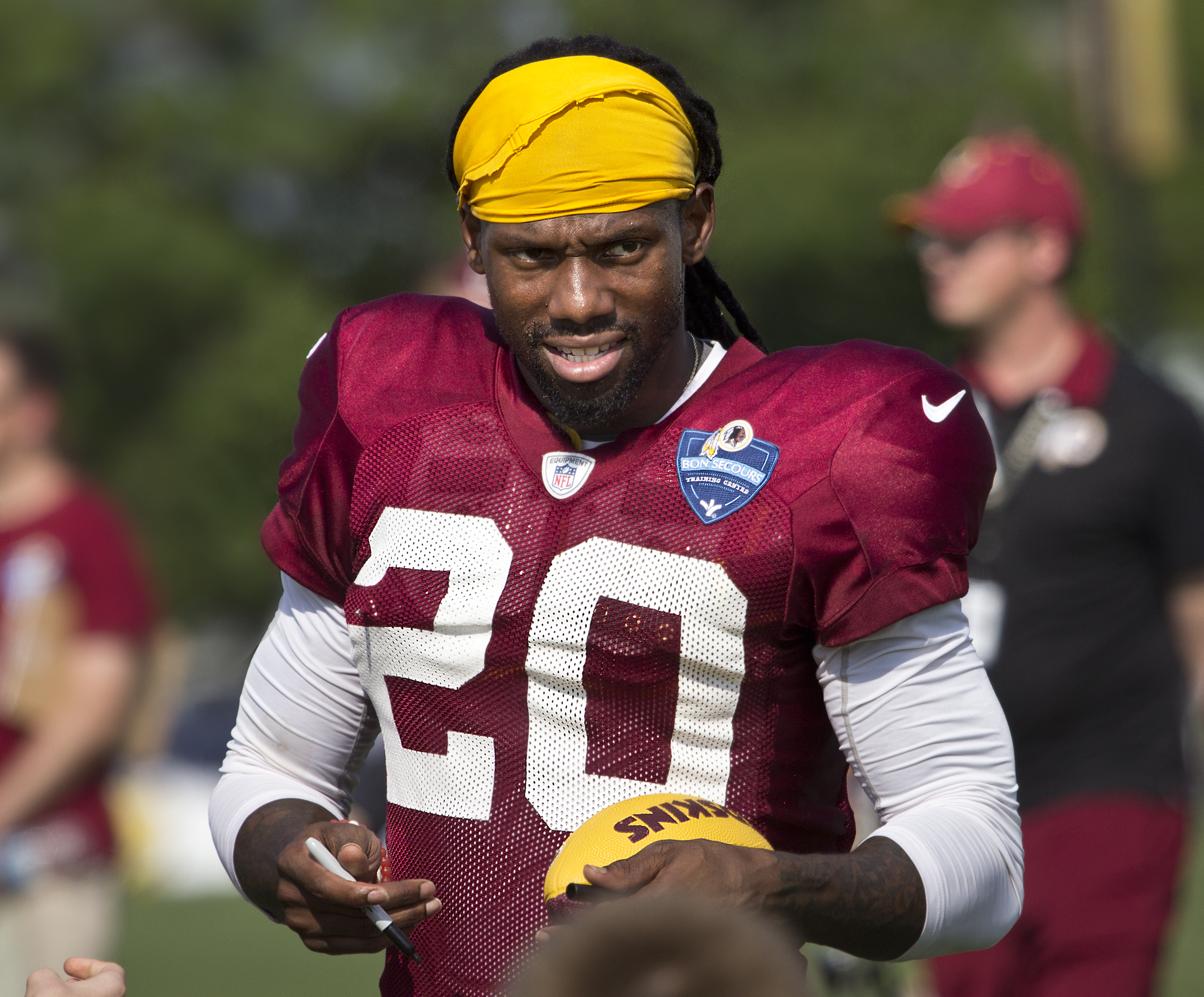 Washington Redskins Richmond Training Camp NFL Football Virginia Va.